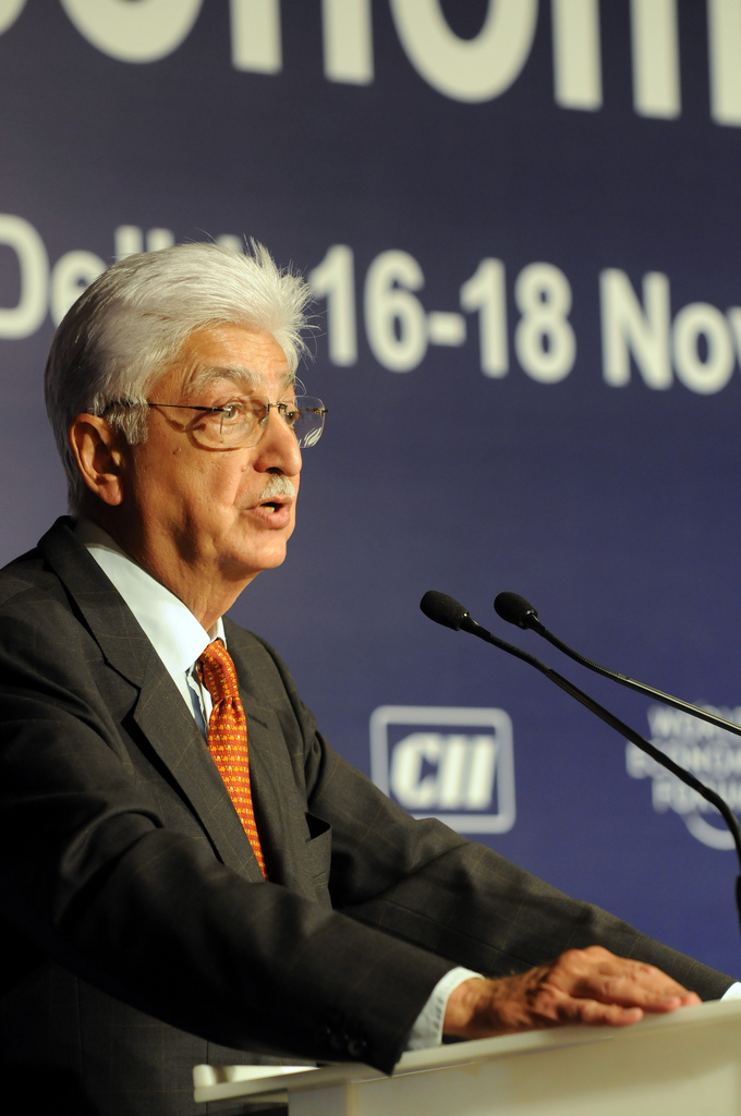 Azim H. Premji, Chairman, Wipro, India, speaks at the World Economic Forum's India Economic Summit 2008 in New Delhi, 16-18 November 2008.